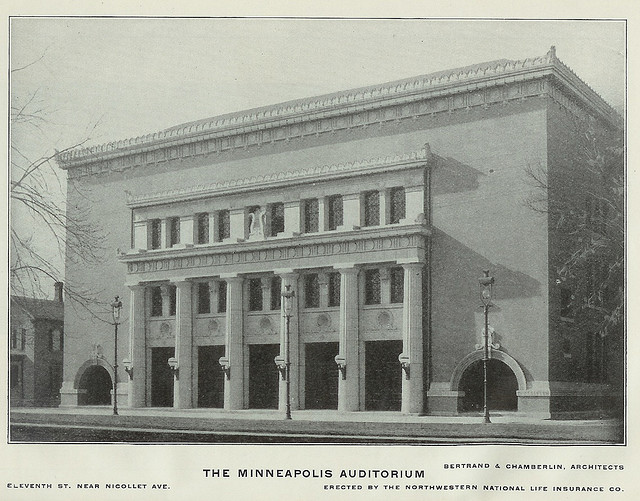 The Minneapolis Auditorium